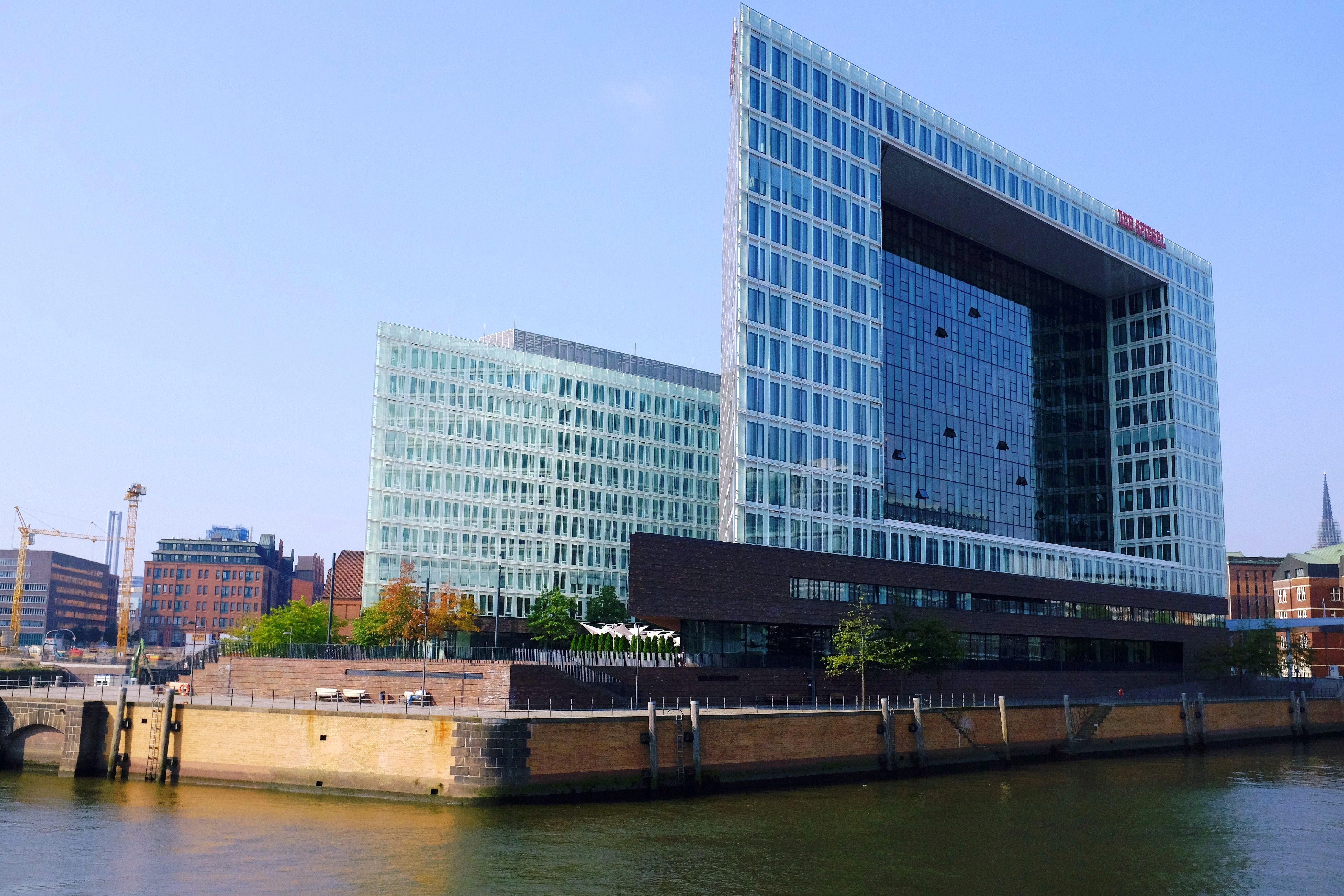 Taken during a walk around HafenCity in Hamburg